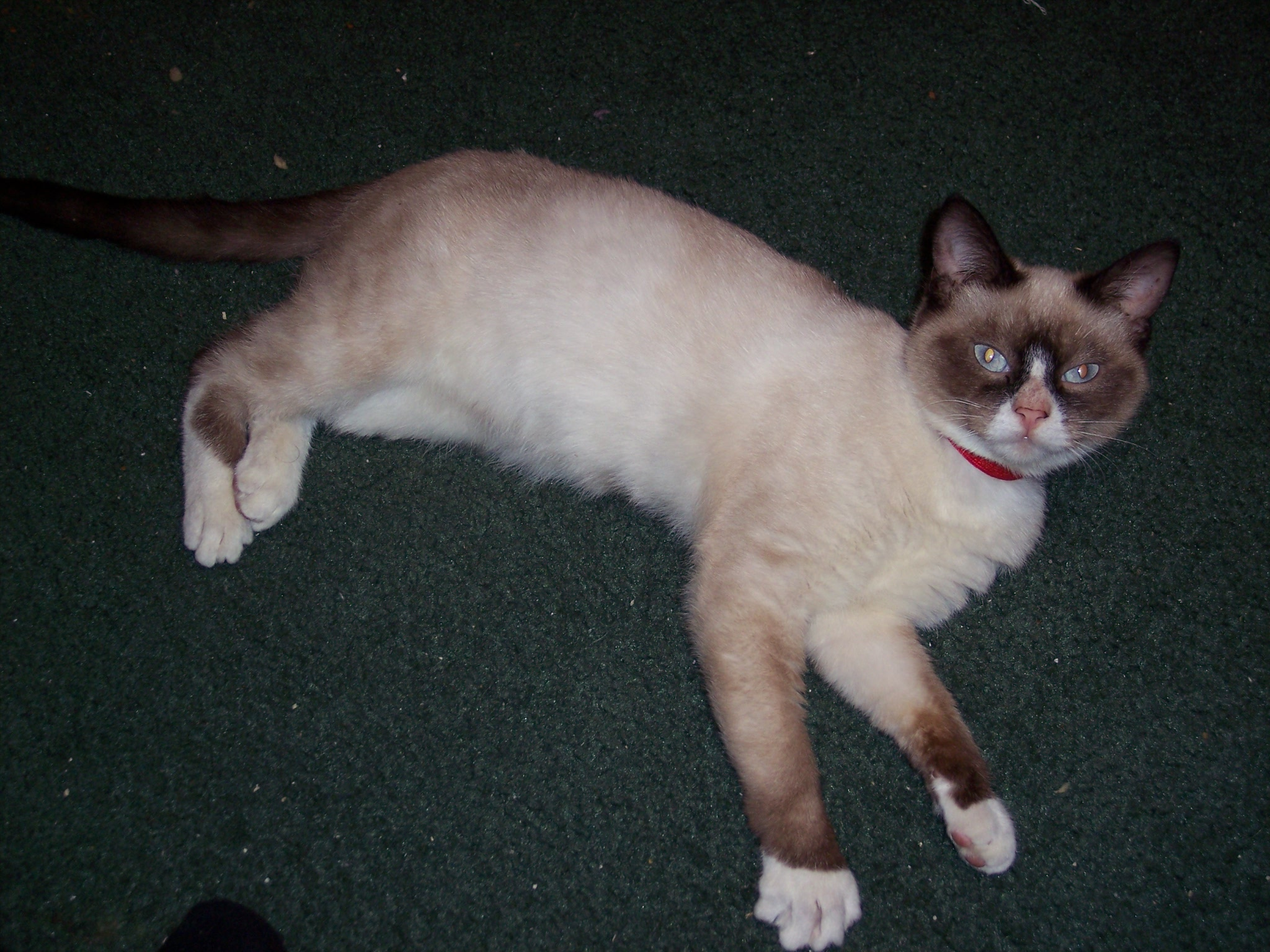 A sealpoint snowshoe kitten.